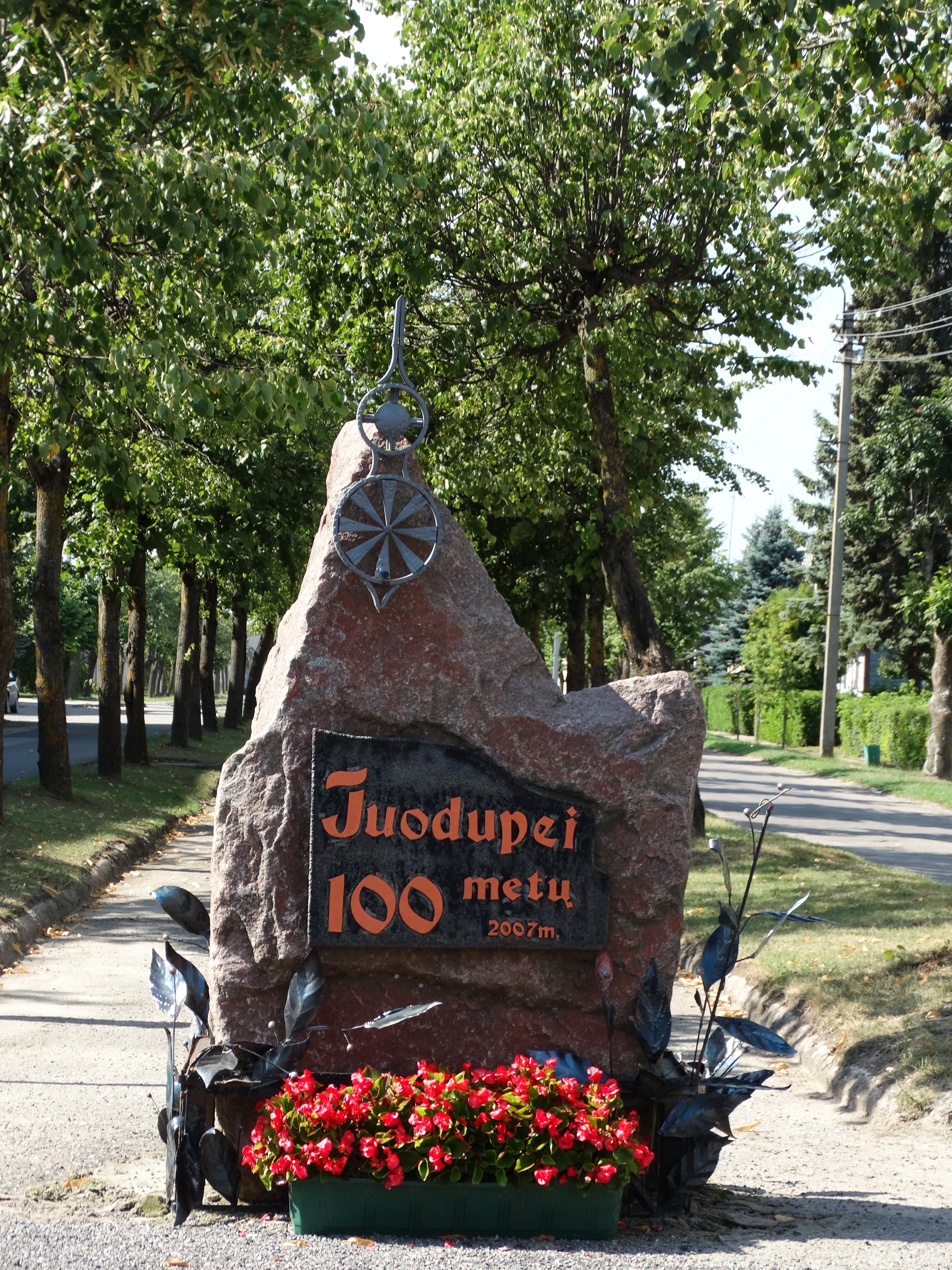 Stone in Juodupė, Rokiškis District, Lithuania